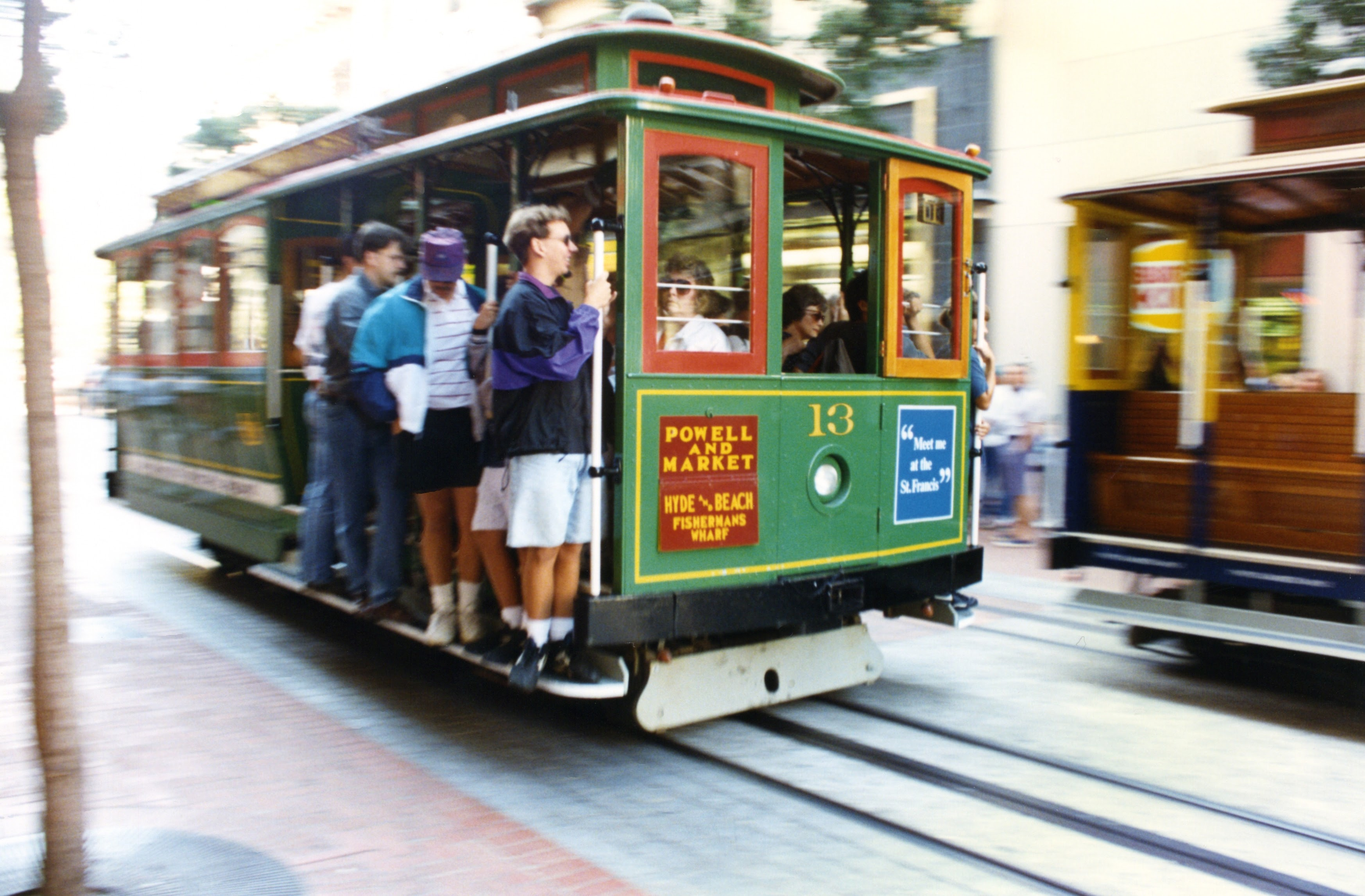 San Francisco cable car in 1994